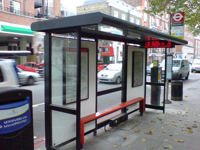 Bus Stop on Vauxhall Bridge Road This is near the junction of Rochester Row. It is a typical central London bus stop, with a vending machine for tickets as some routes (the ones highlighted in yellow on the sign) require passengers to pay before they board. There is also a map showing day and night bus routes, and timetables are displayed too. A display gives real-time estimates for arrivals, linked to satellite location devices on board. It is a request stop, but it is a much used one so in practice buses almost always stop here anyway.